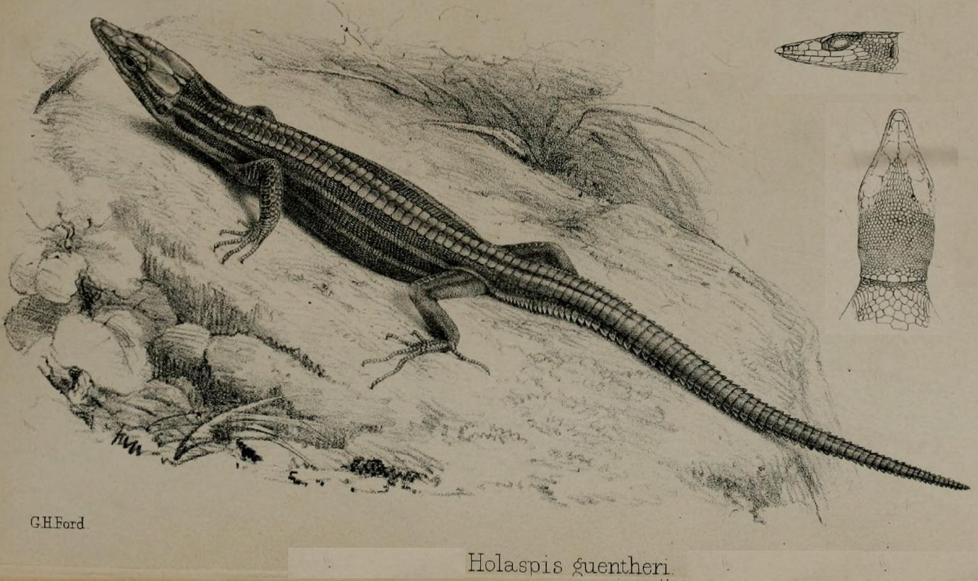 Drawing of Holaspis guentheri